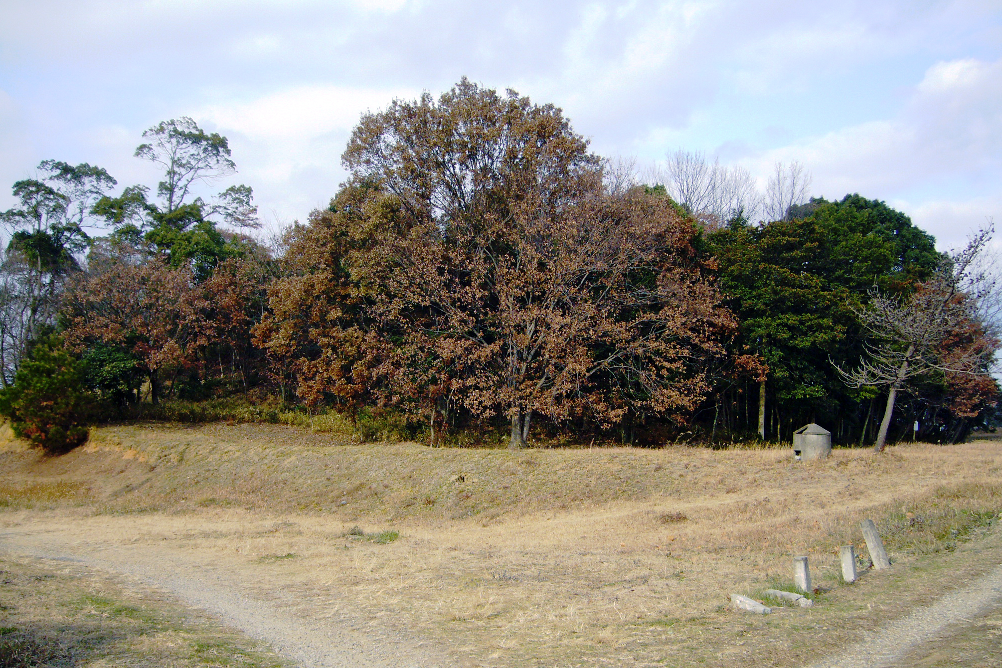 Hitozuka Kofun of Saijo Tombs in Kakogawa, Hyogo prefecture, Japan.